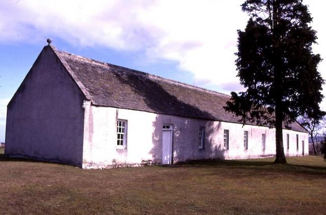 St Ninian's Chapel, Tynet. In the 18th century, the Enzie district remained staunchly Roman Catholic despite official persecution. In 1755 the local laird handed over this modest building, which he had built claiming it was intended for sheep, for the Roman Catholic congregation to use as a chapel. It was the first post-Reformation Roman Catholic Church in Scotland.